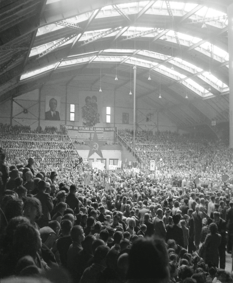 The Lithuanian Teachers' Congress in 1940. The photograph was taken when the teachers sang Tautiška giesmė.